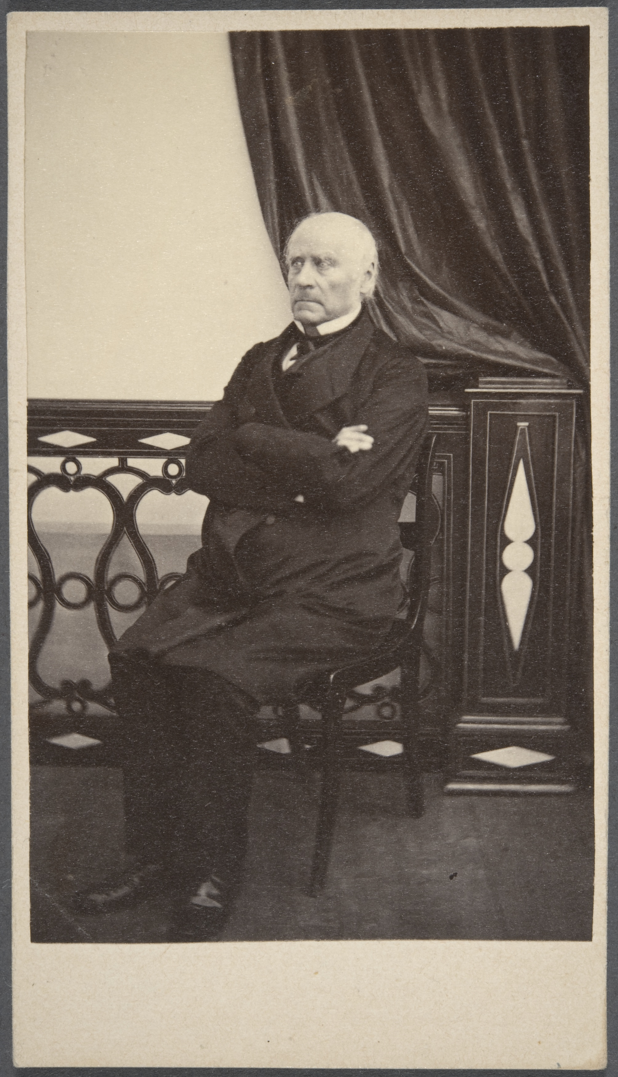 Photograph of the Finnish senator Pehr Törnqvist (1788–1870).